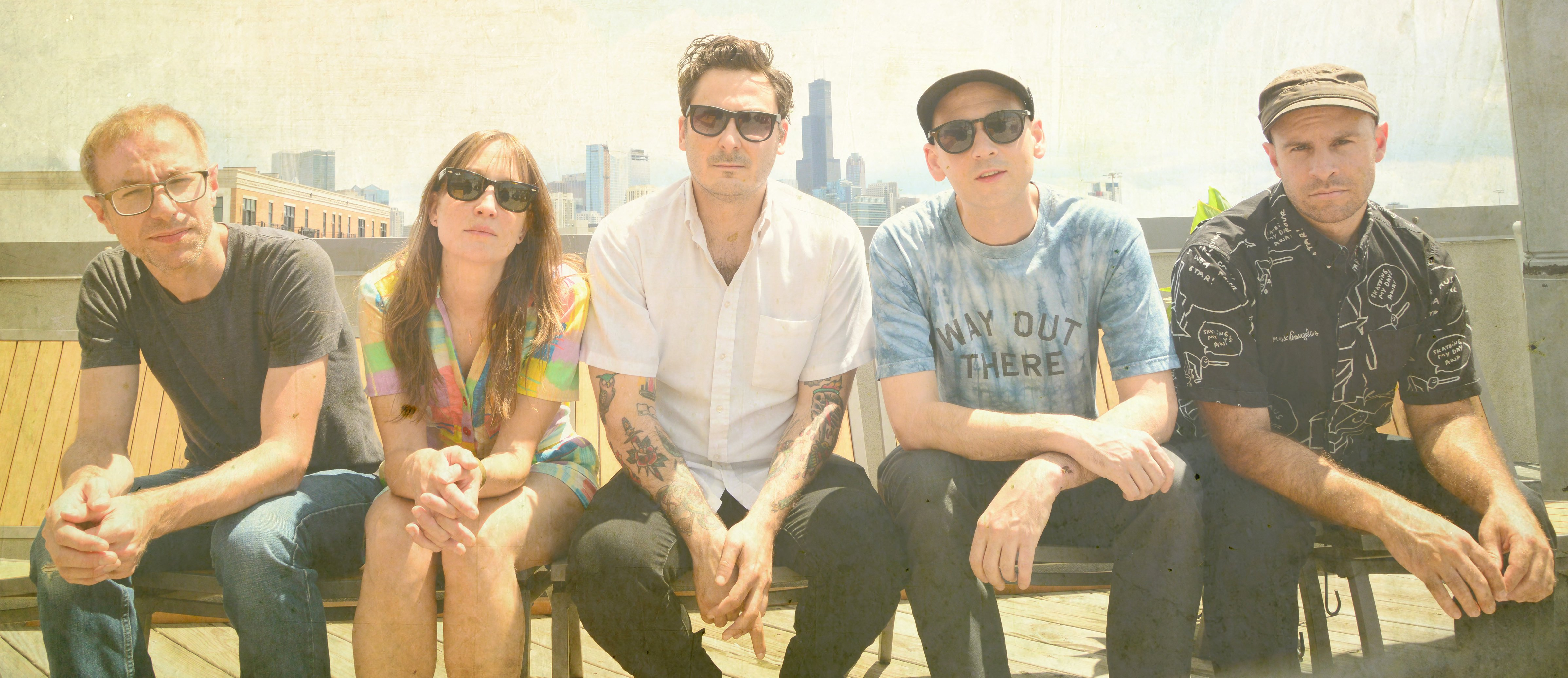 Band photo of Joan of Arc, c. 2016